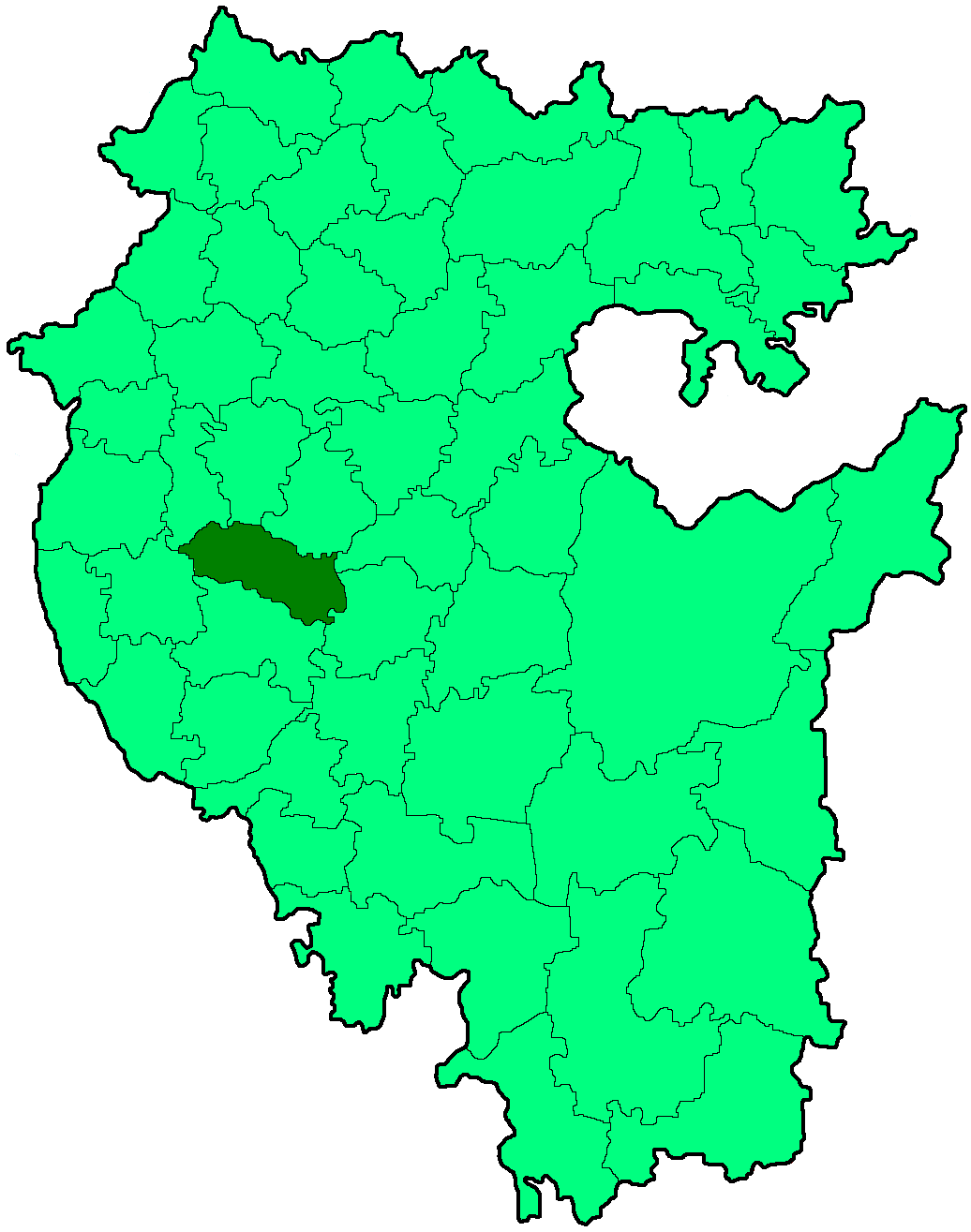 Davlekanovskiy Raion, Bashkortostan, Russia